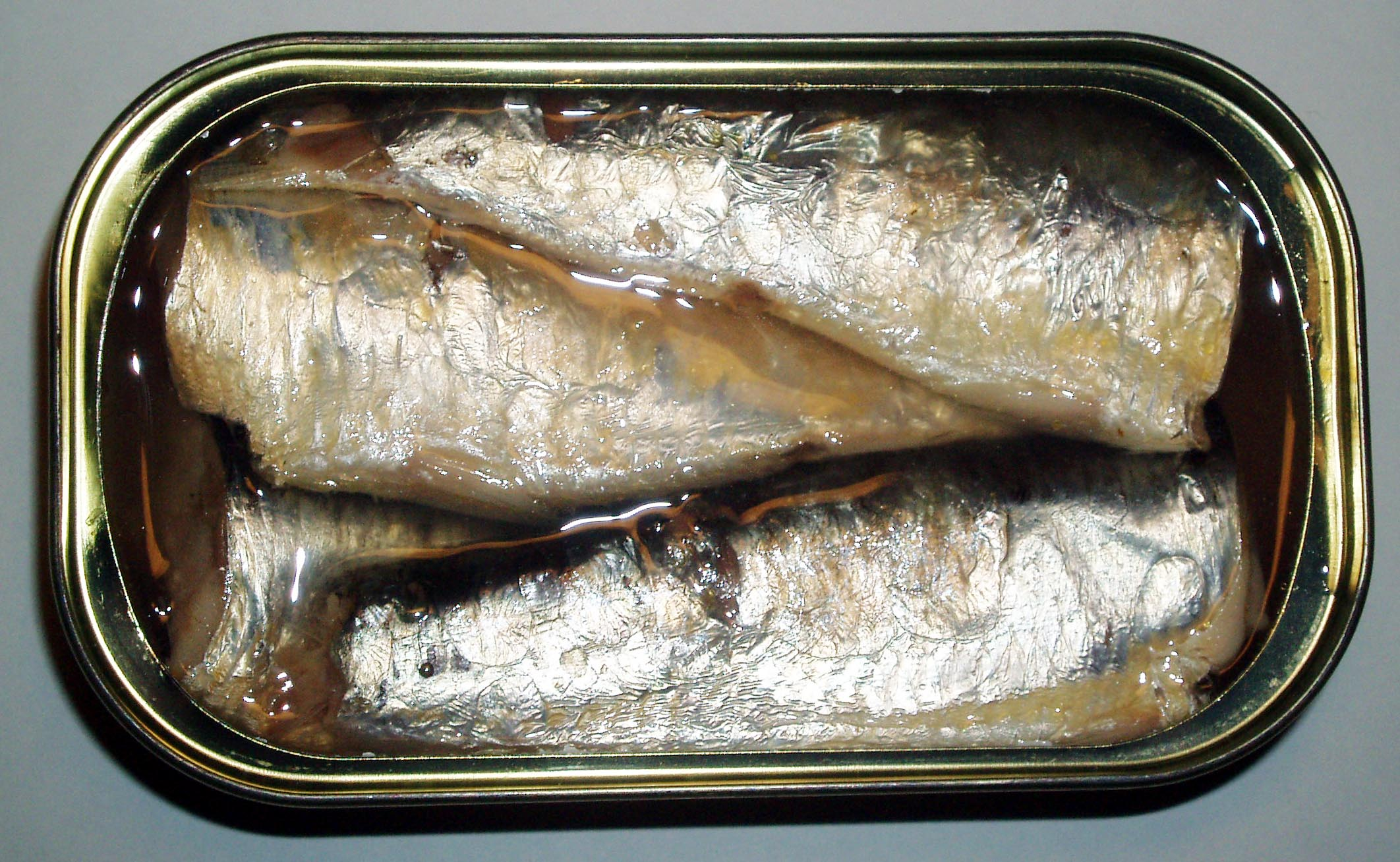 Canned sardines in salt water